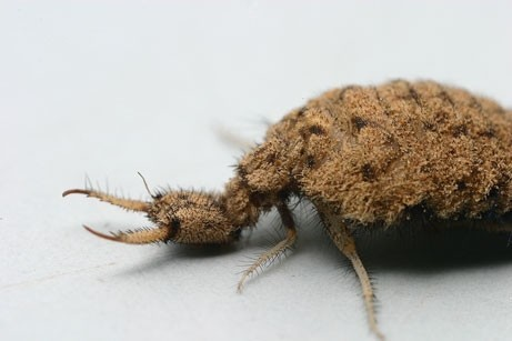 Unknown Myrmeleontidae (Antlion) larva